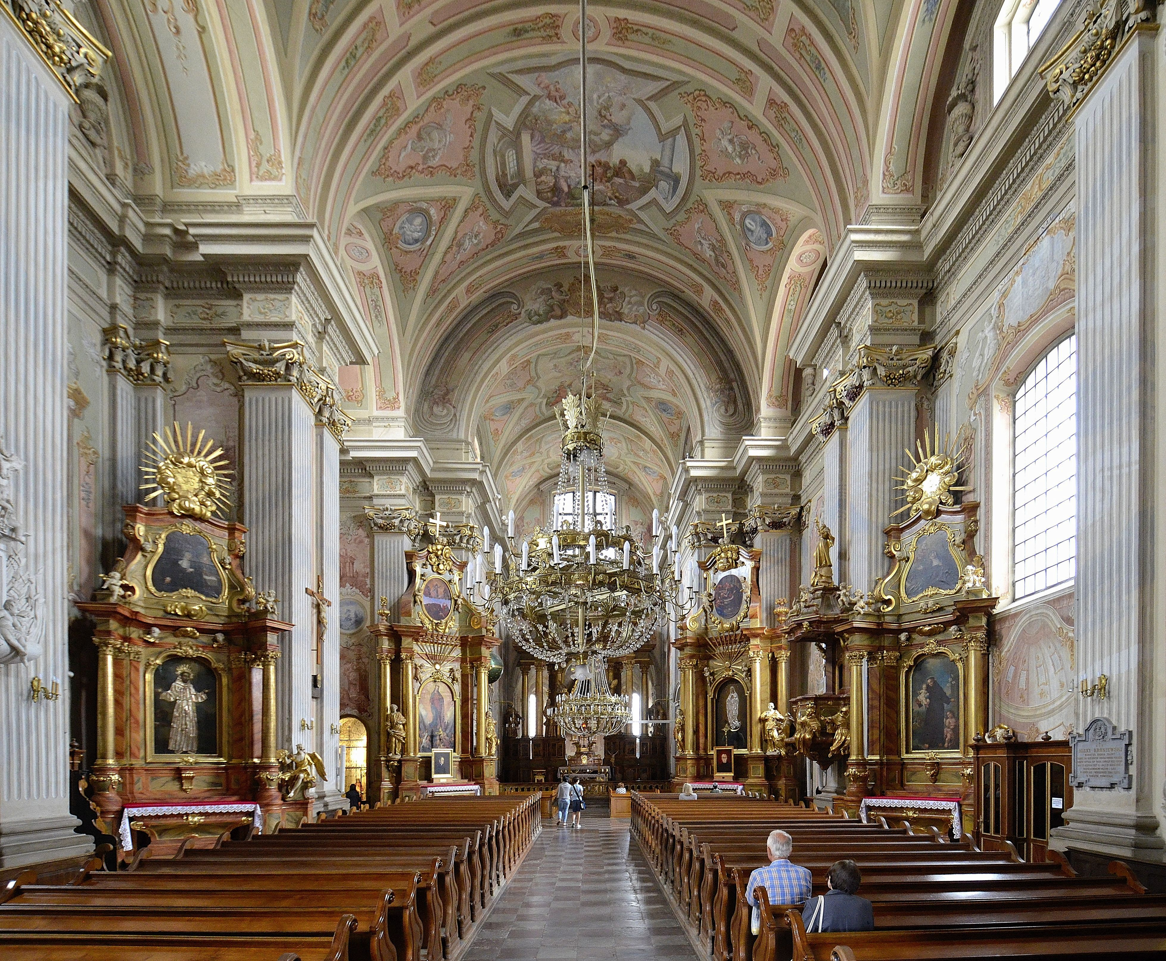 Interior os St. Anne church in Warsaw